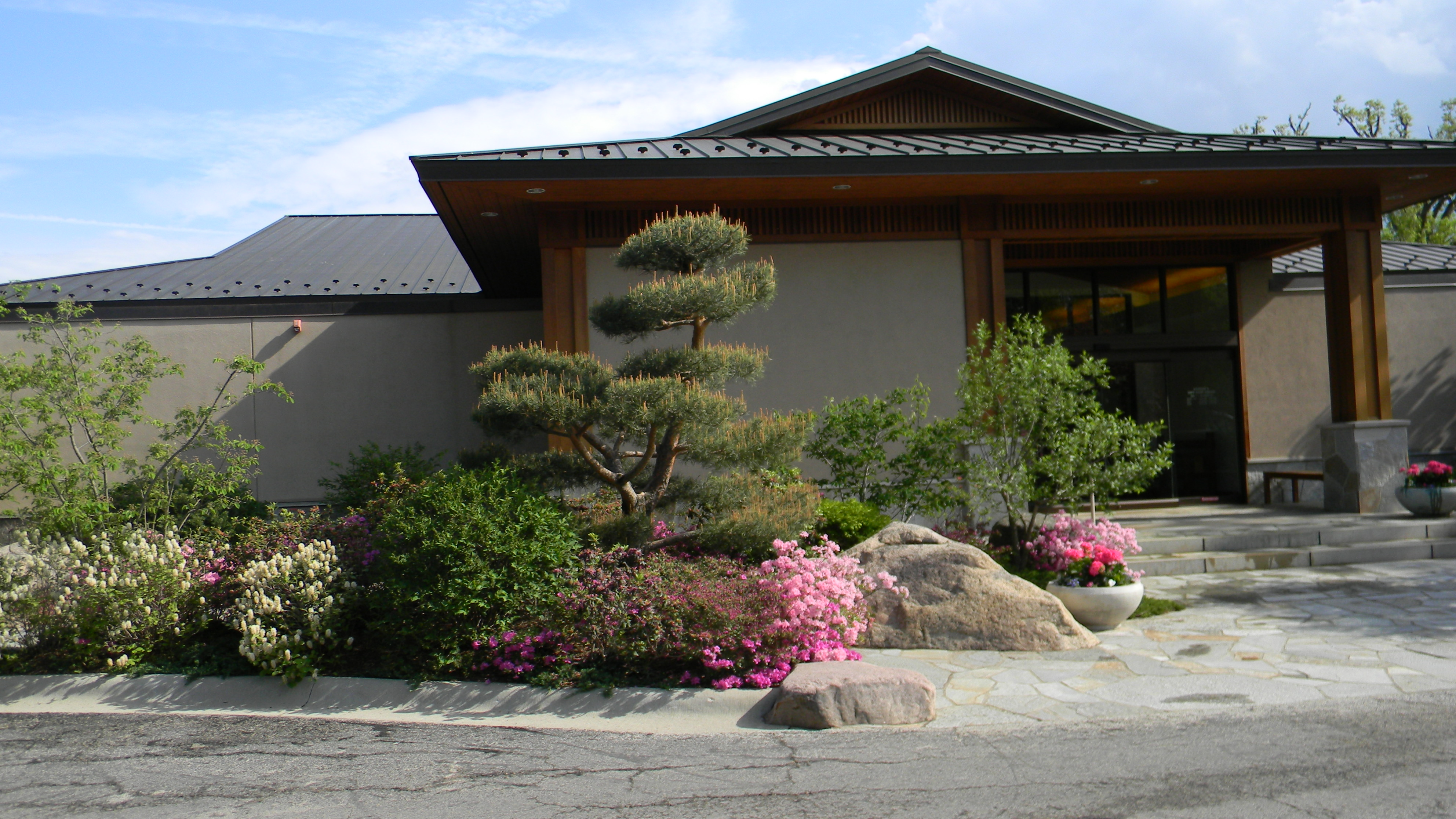 Entryway to the Anderson Japanese Garden in Rockford Illinois. Rockford is located in northwestern Illinois near the Wisconsin border. Anderson's gardens are located on a 12 acre site complete with ponds and waterfalls. Benches spot the park, allowing the stroller to rest and enjoy the beauty. (42-17-21N 89-03-34W and 717ft elevation)